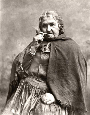 Rachel Hamilton nee Johnston of Glasgow. Born in Ireland. Was special constable during 1875 riots. Say 1880?